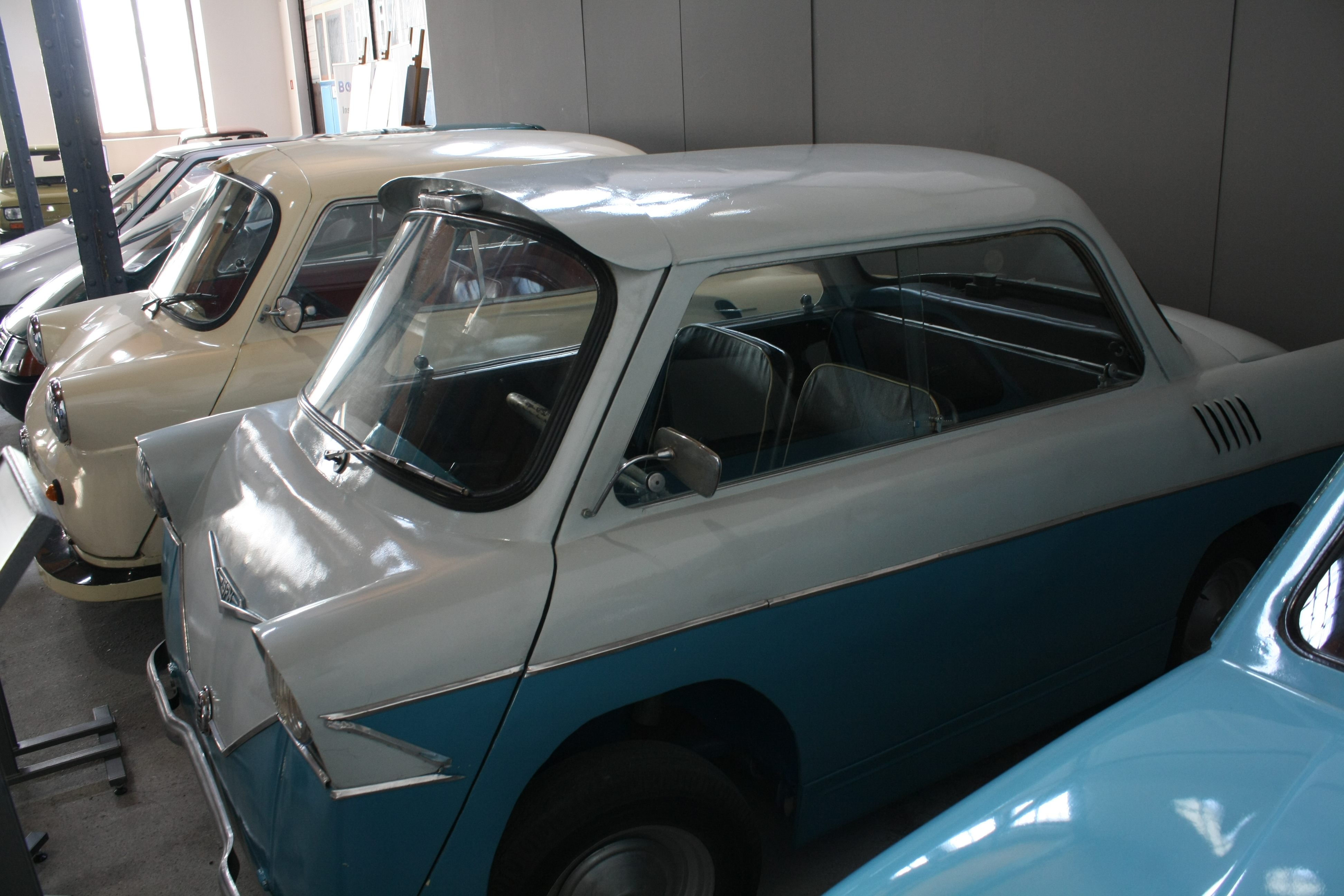 A Polish micro-car "Smyk", 1957 version, 1958 version (with epoxide resin based top) in behind.